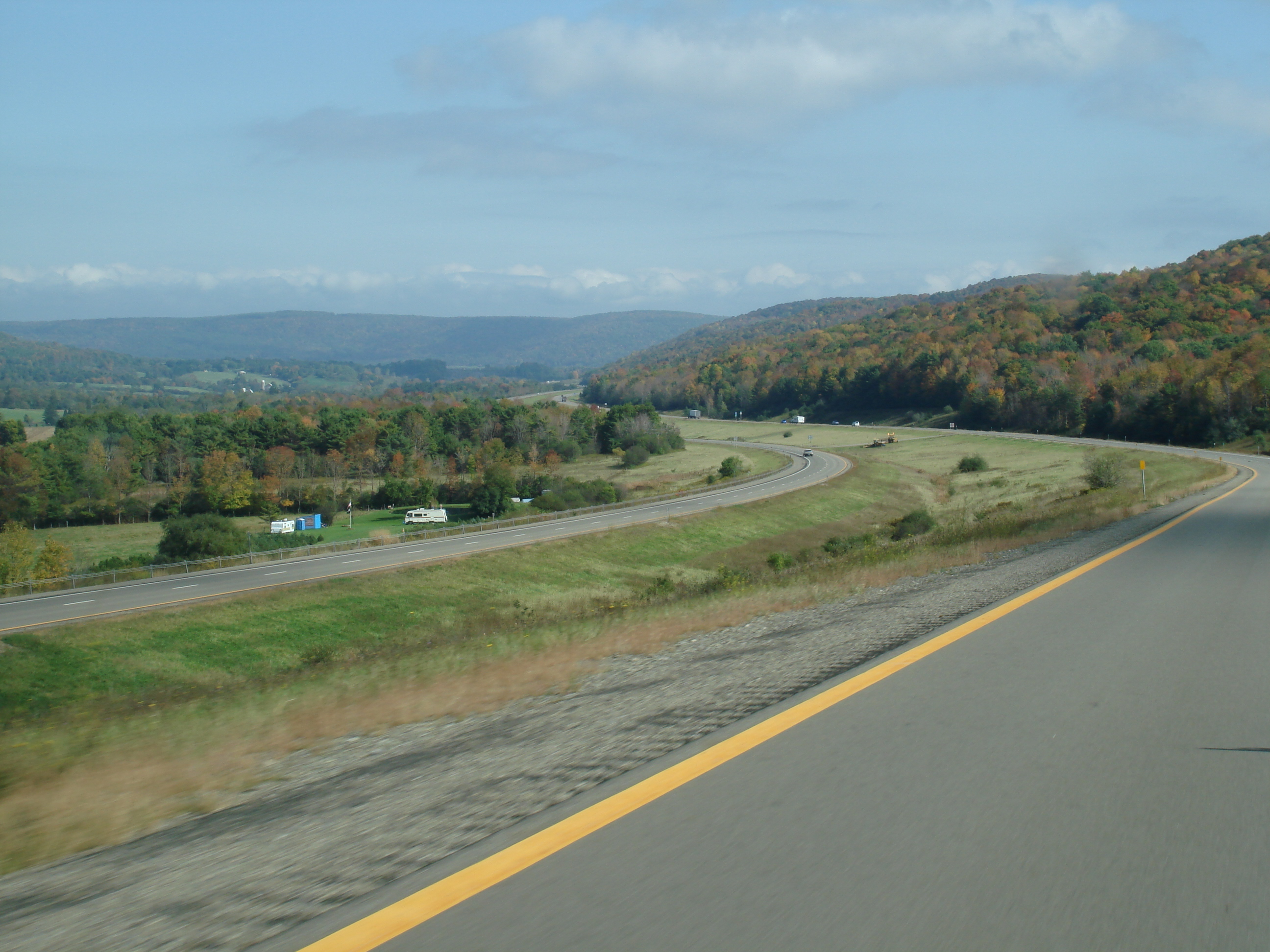 Route 17 in Allegany County, NY